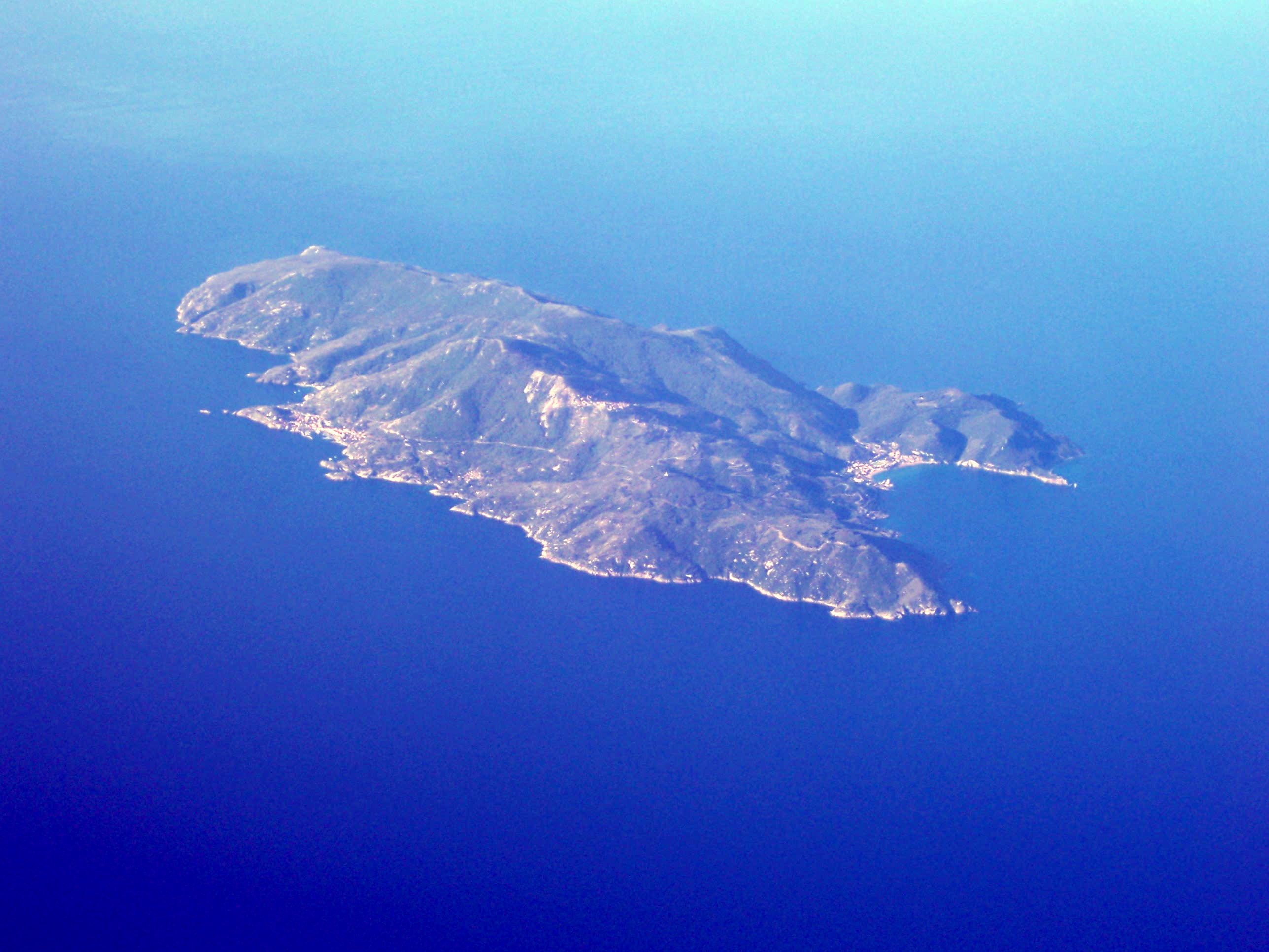 Aerial view of Isola del Giglio, looking from the North East